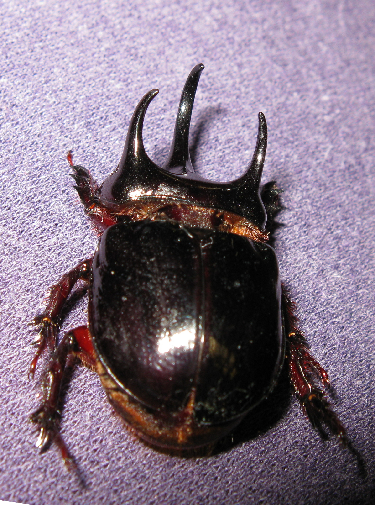 Strategus antaeus: Ox beetle, Rhinoceros beetle. Male.